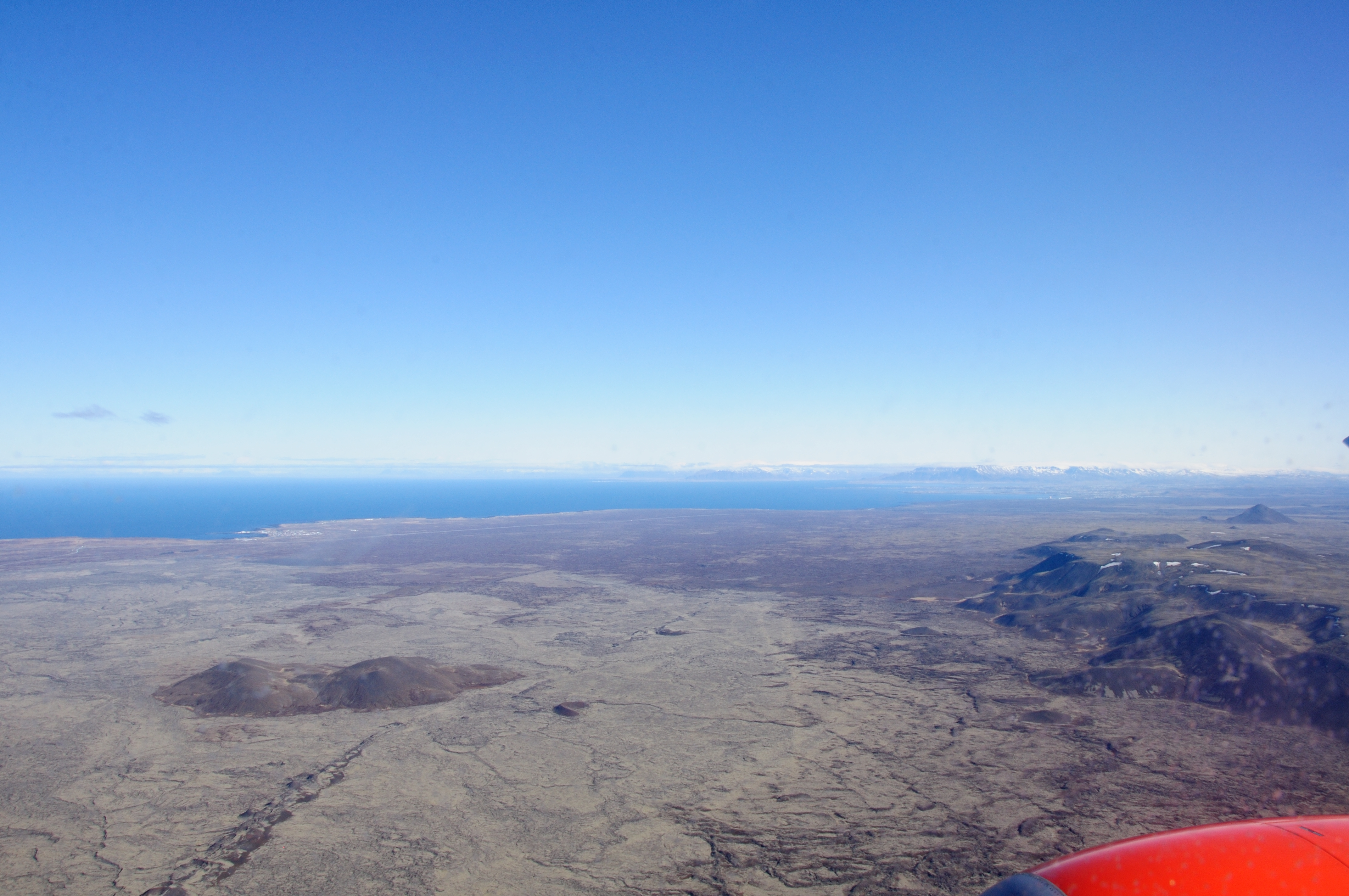 Iceland, picture taken during the approach into KEF, unfortunately through a pretty dirty window.